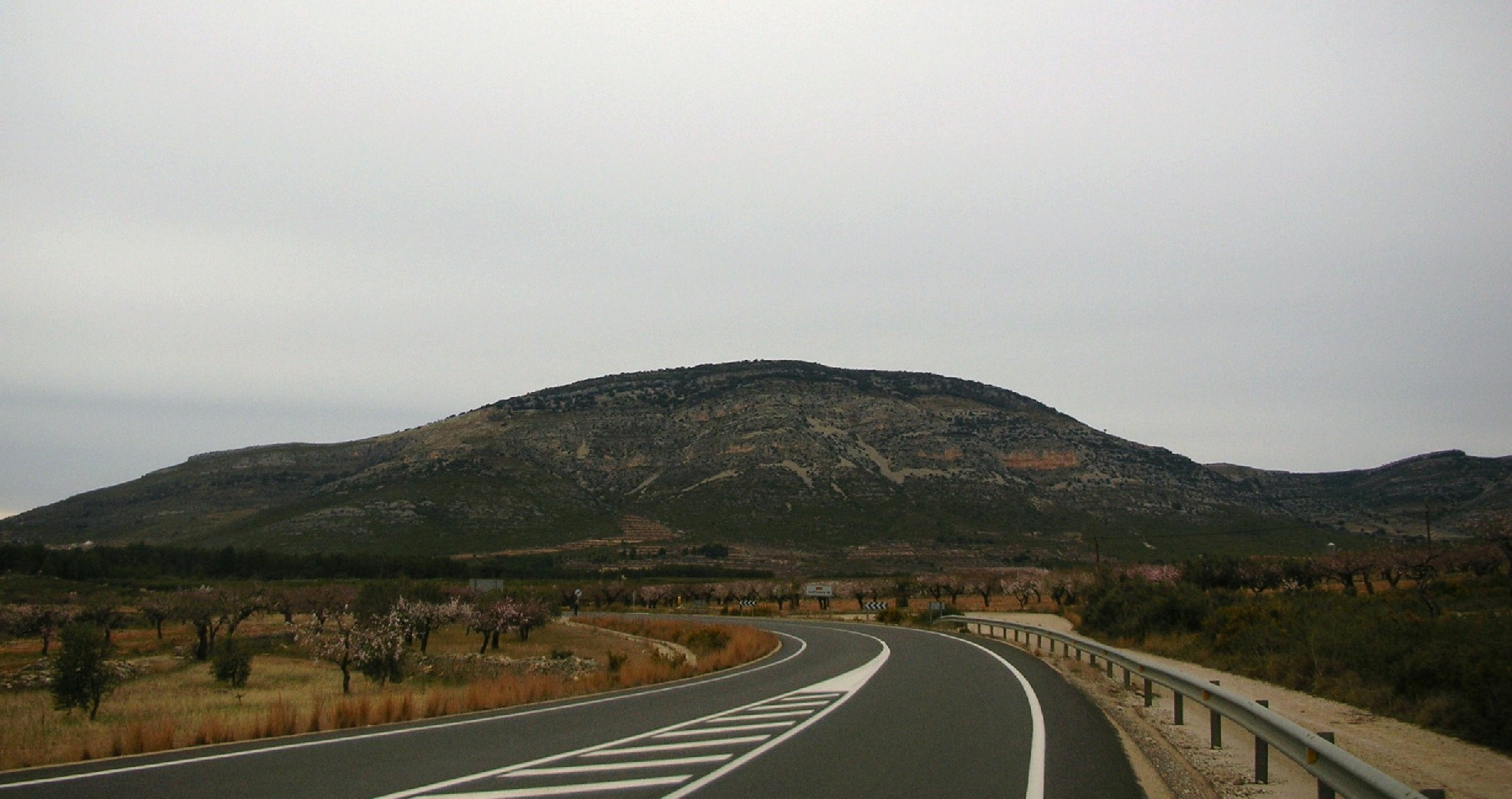 Tossal d'Orenga mountain, near Albocàsser, Alt Maestrat. It belongs to the Serra d'En Celler